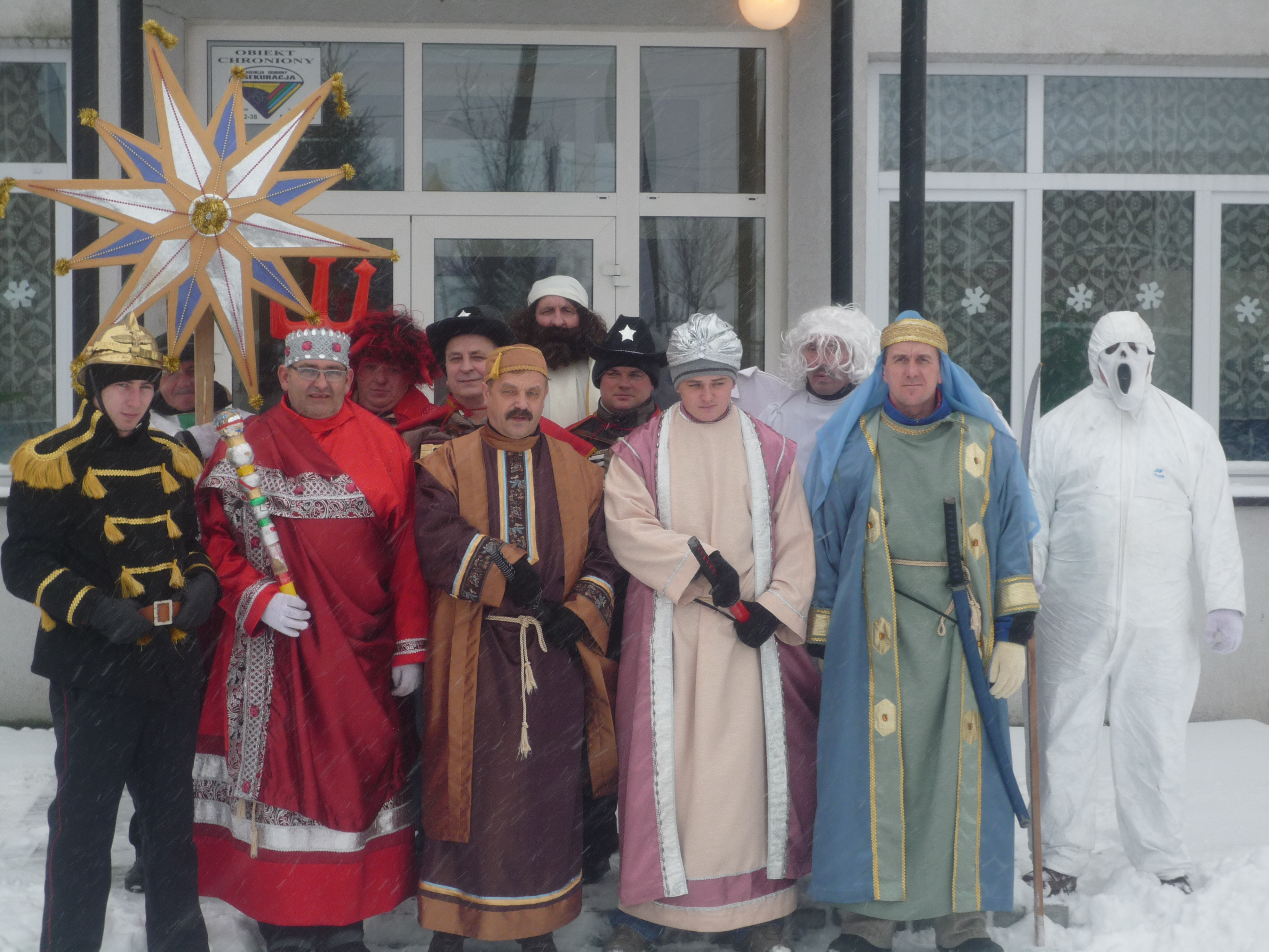 common singing of carols, carol singers in Poland, (Christmas) carollers or carolers in Poland